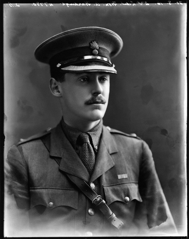 by Bassano, whole-plate glass negative, 30 August 1916